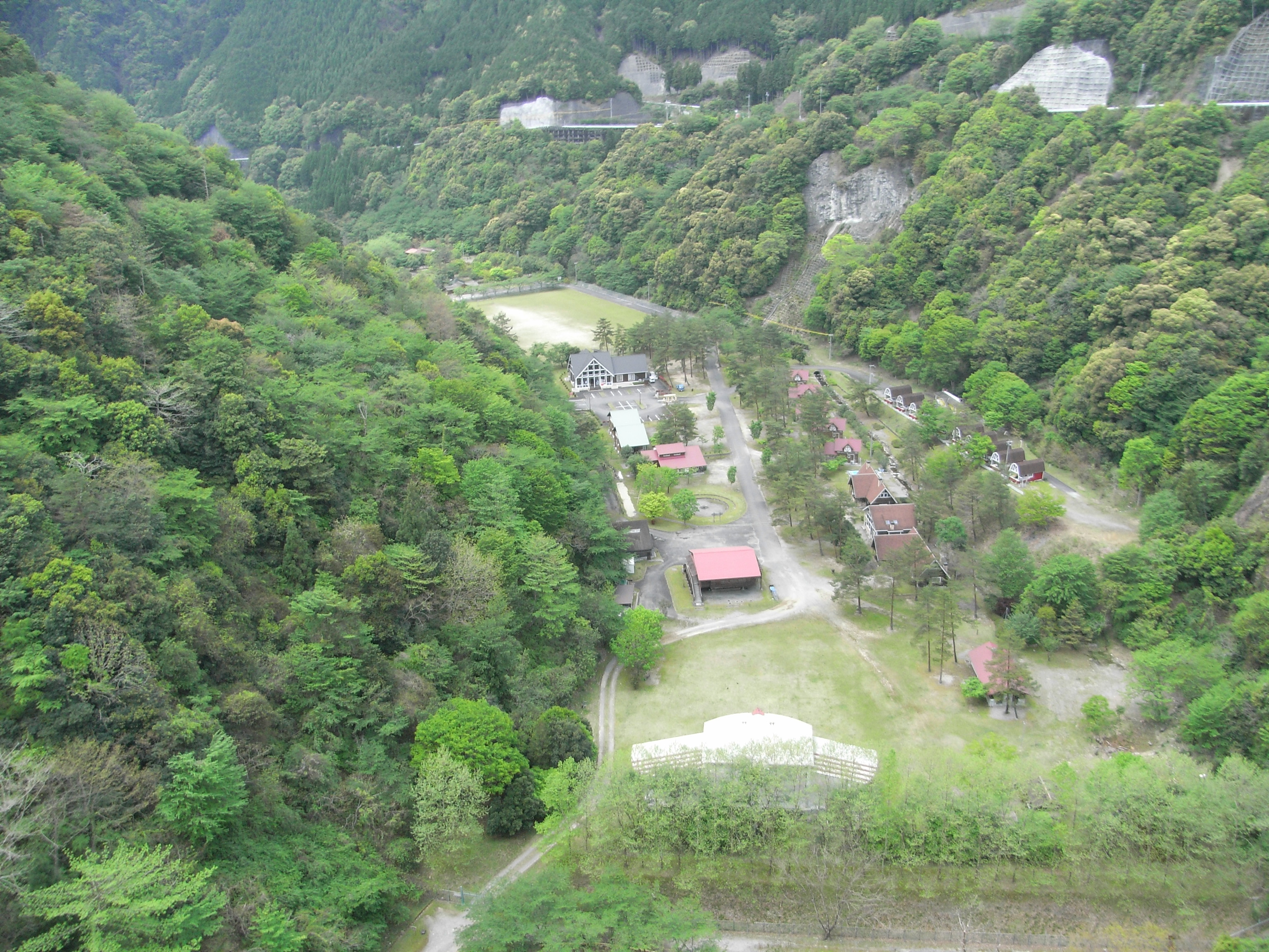 Shimokitayama Sports Park